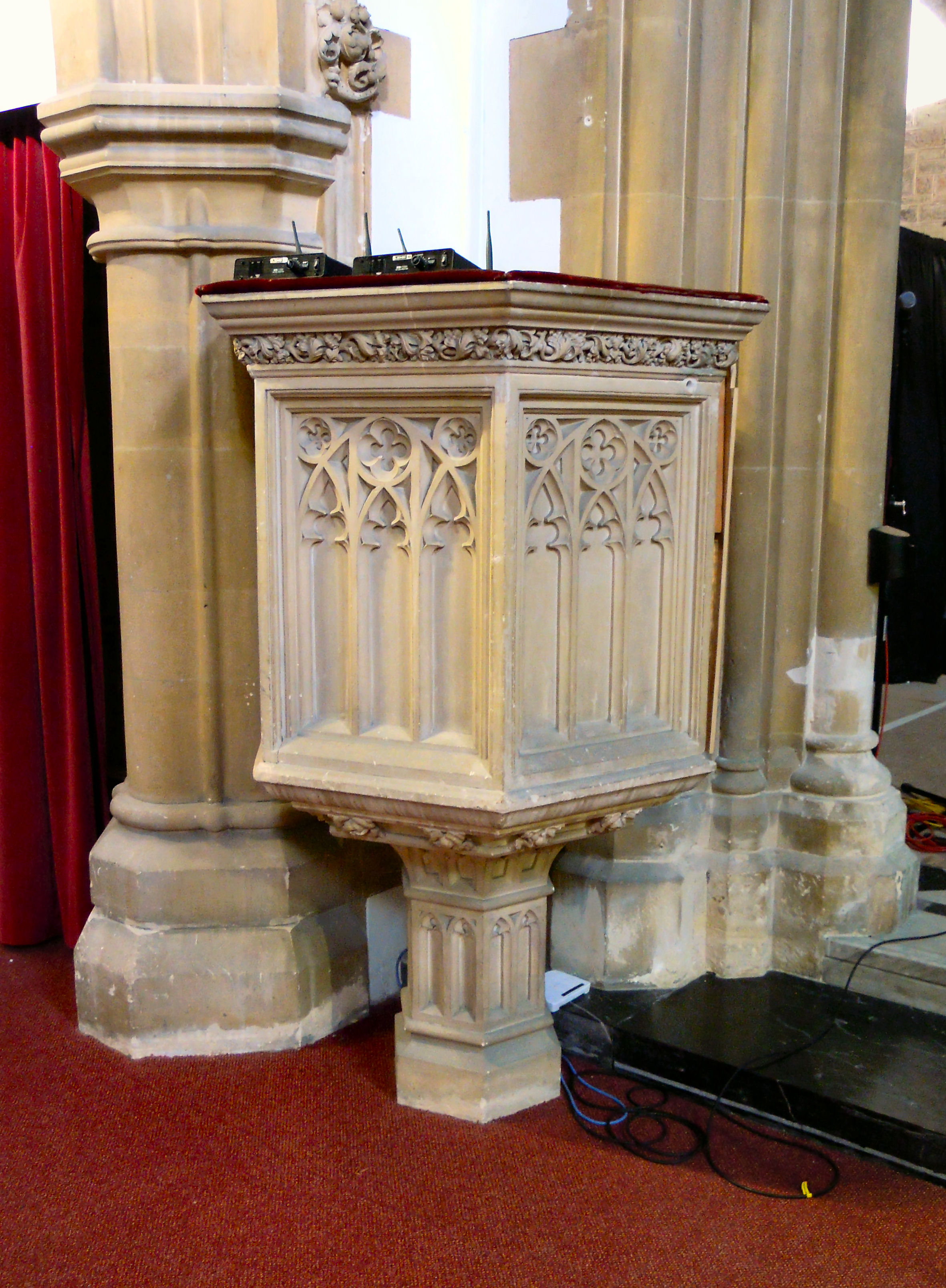 The pulpit of Holy Trinity Church in Barnstaple in Devon